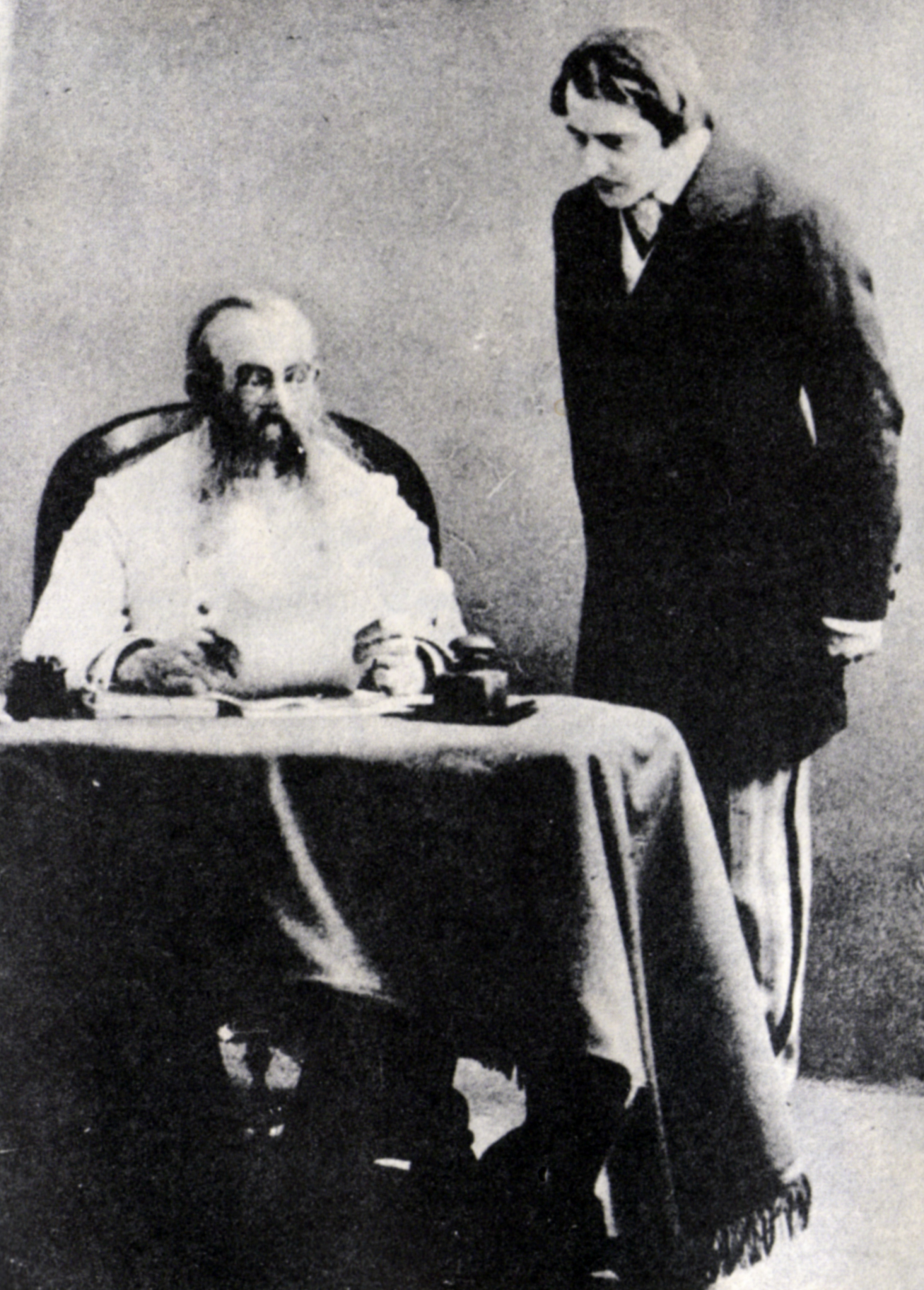 The Russian actor and director Konstantin Stanislavski (left, Константин Сергеевич Станиславский) as General Krutitski and Vasili Kachalov (right) in a production of Aleksandr Ostrovsky's (Александр Николаевич Островский) Enough Stupidity in Every Wise Man (На всякого мудреца довольно простоты) at the Moscow Art Theatre in 1910.